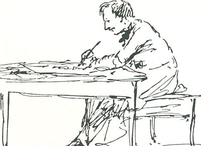 Selfportrait